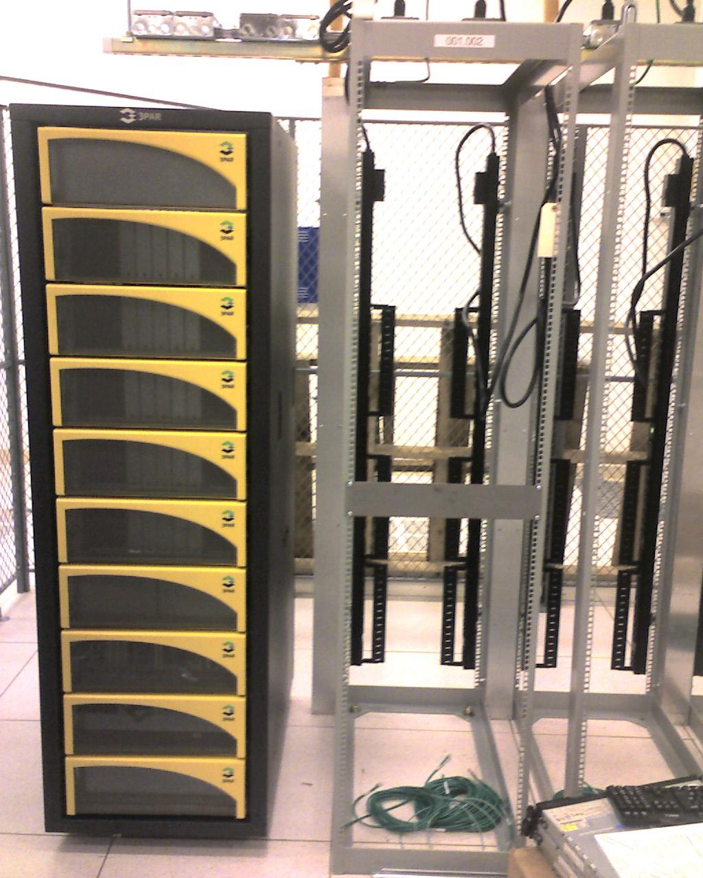 this is where it's going to live